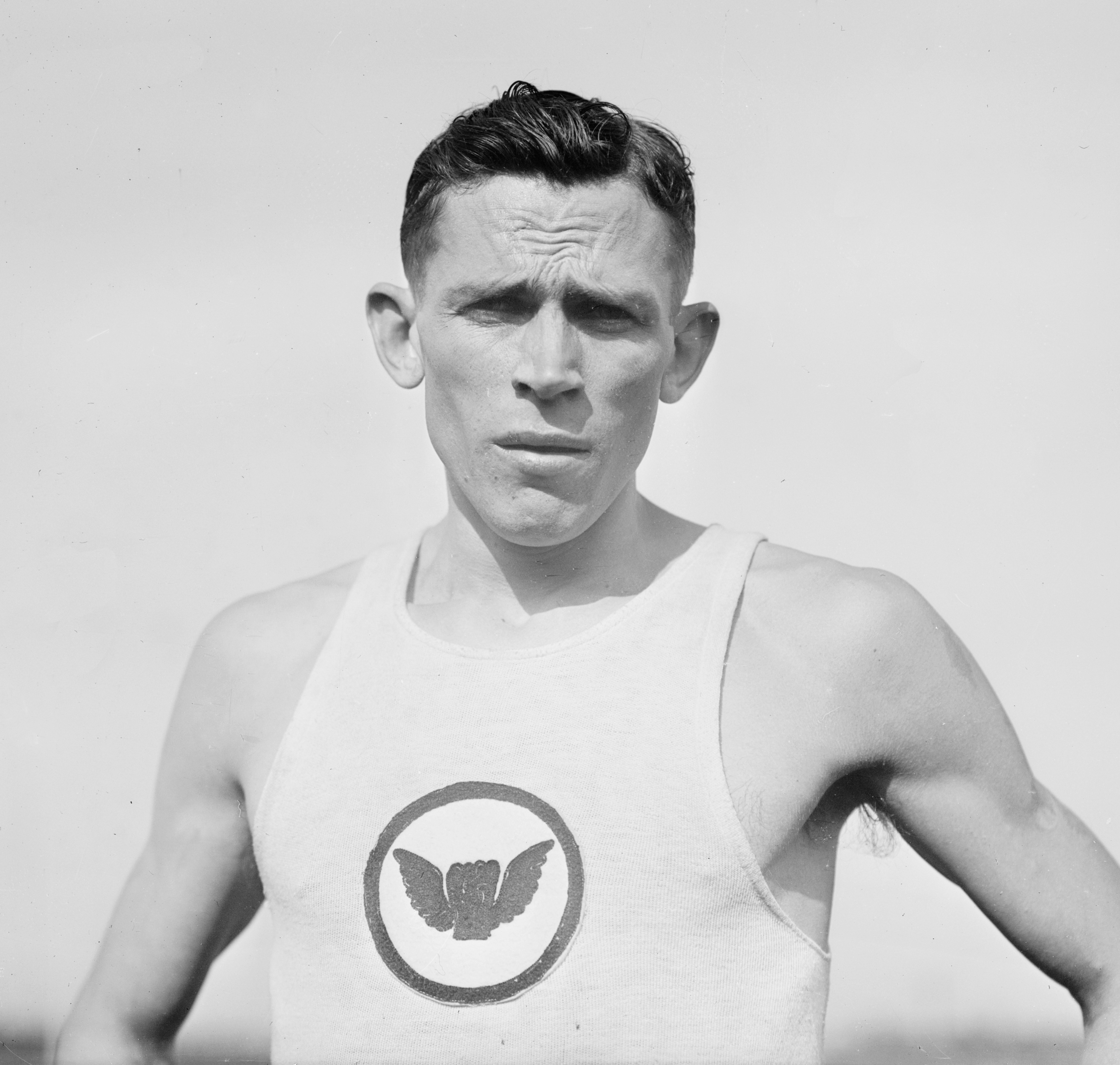 Bain News Service,, publisher. Mel Sheppard [between 1910 and 1915] 1 negative : glass ; 5 x 7 in. or smaller. Notes: Title from unverified data provided by the Bain News Service on the negatives or caption cards. Forms part of: George Grantham Bain Collection (Library of Congress). Subjects: Track athletics Format: Glass negatives. Repository: Library of Congress, Prints and Photographs Division, Washington, D.C. 20540 USA, General information about the Bain Collection is available at Persistent URL: Call Number: LC-B2- 2282-3